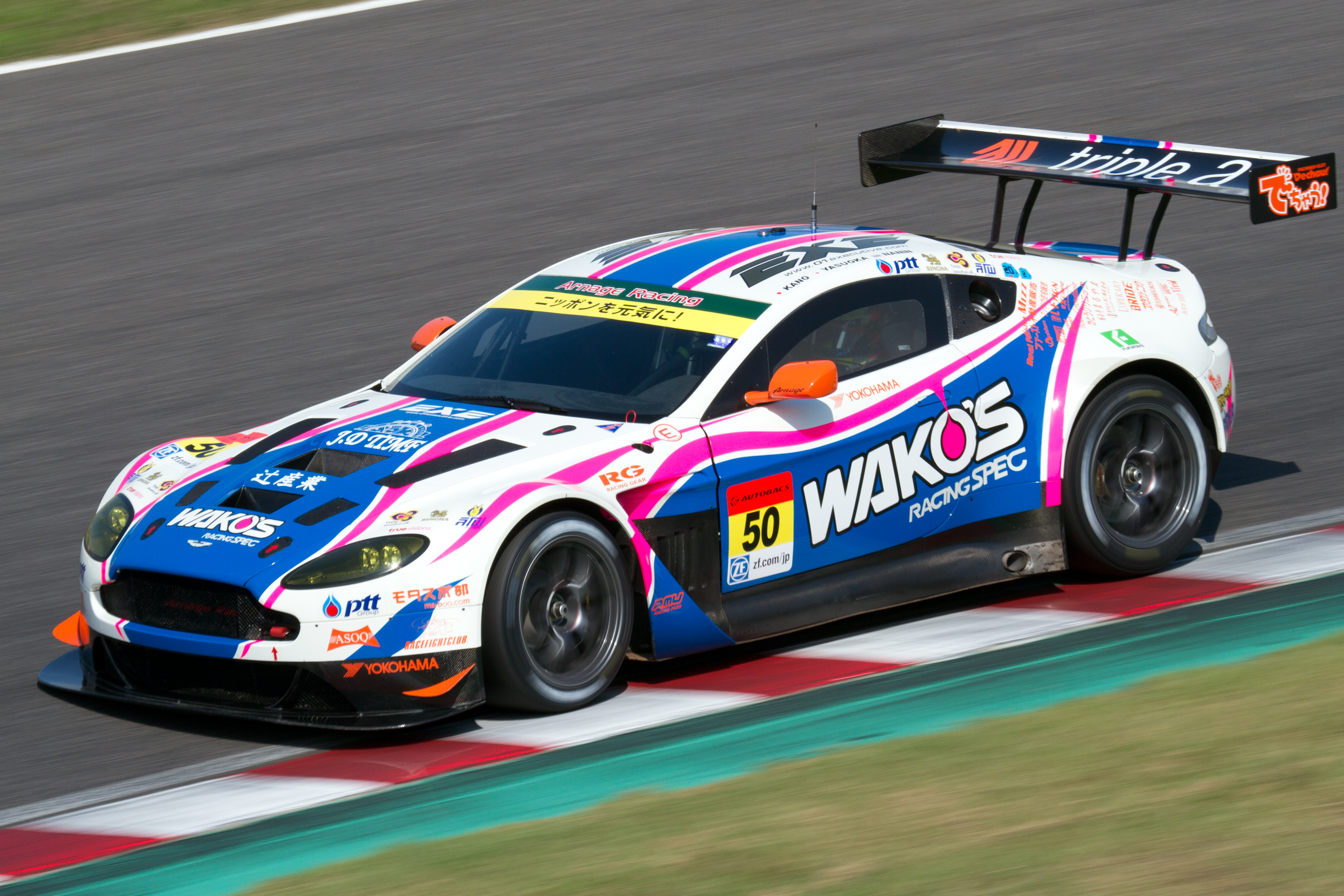 Super GT 2014 Rd.6 Suzuka 1000km: Hideto Yasuoka (Arnage Racing)